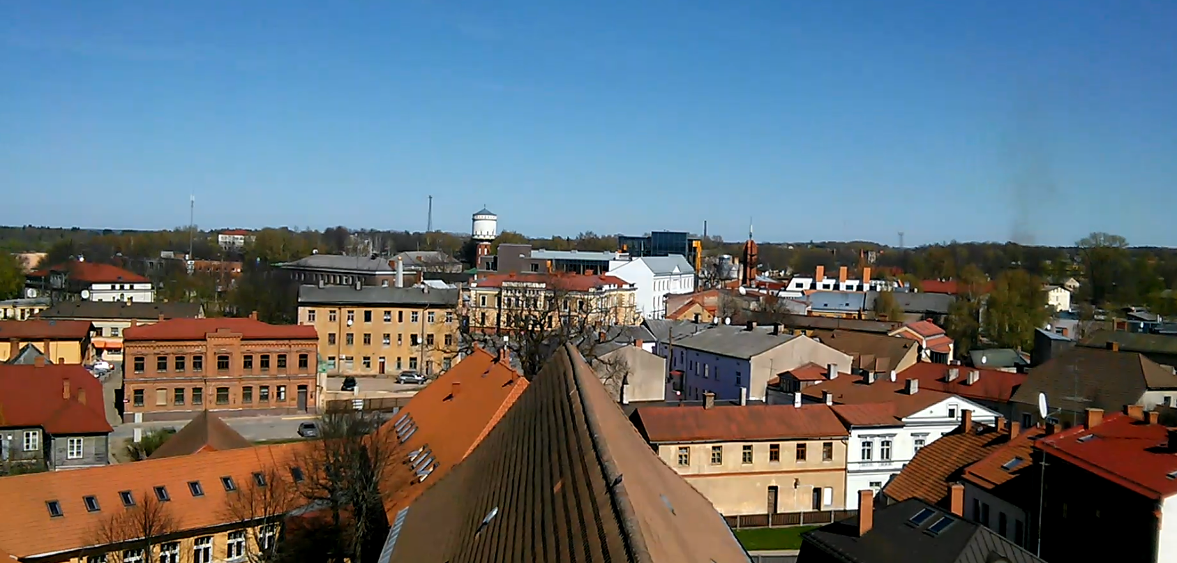 Old town of Cesis